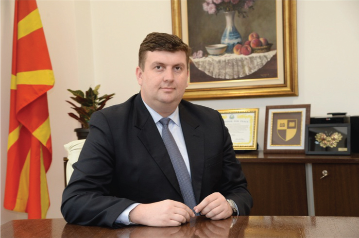 Душко Гошевски